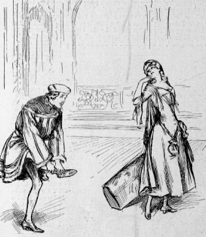 Image of George Grossmith and Ilka Palmay in His Majesty, scanned from "The Playhouses", Illustrated London News, 27 February 1897, p. 274. Public domain.